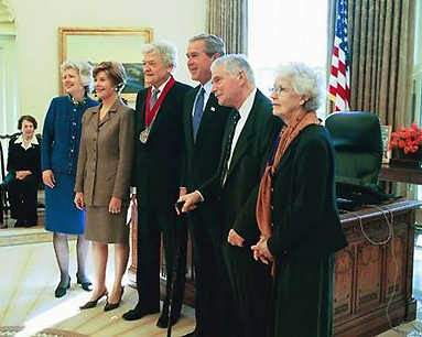 President George W. Bush and Laura Bush pose for a photo with actor Hal Holbrook, center, one of the National Humanities Medal Award recipients, during a ceremony in the Oval Office Friday, Nov. 14, 2003.